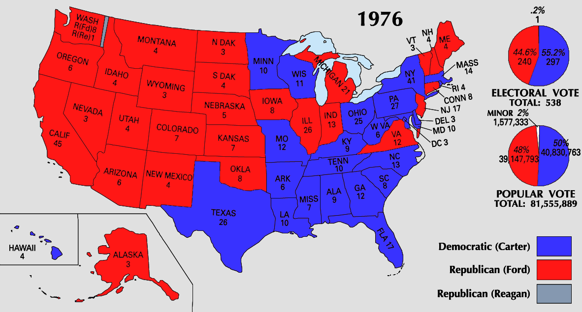 1976 Electoral College Map